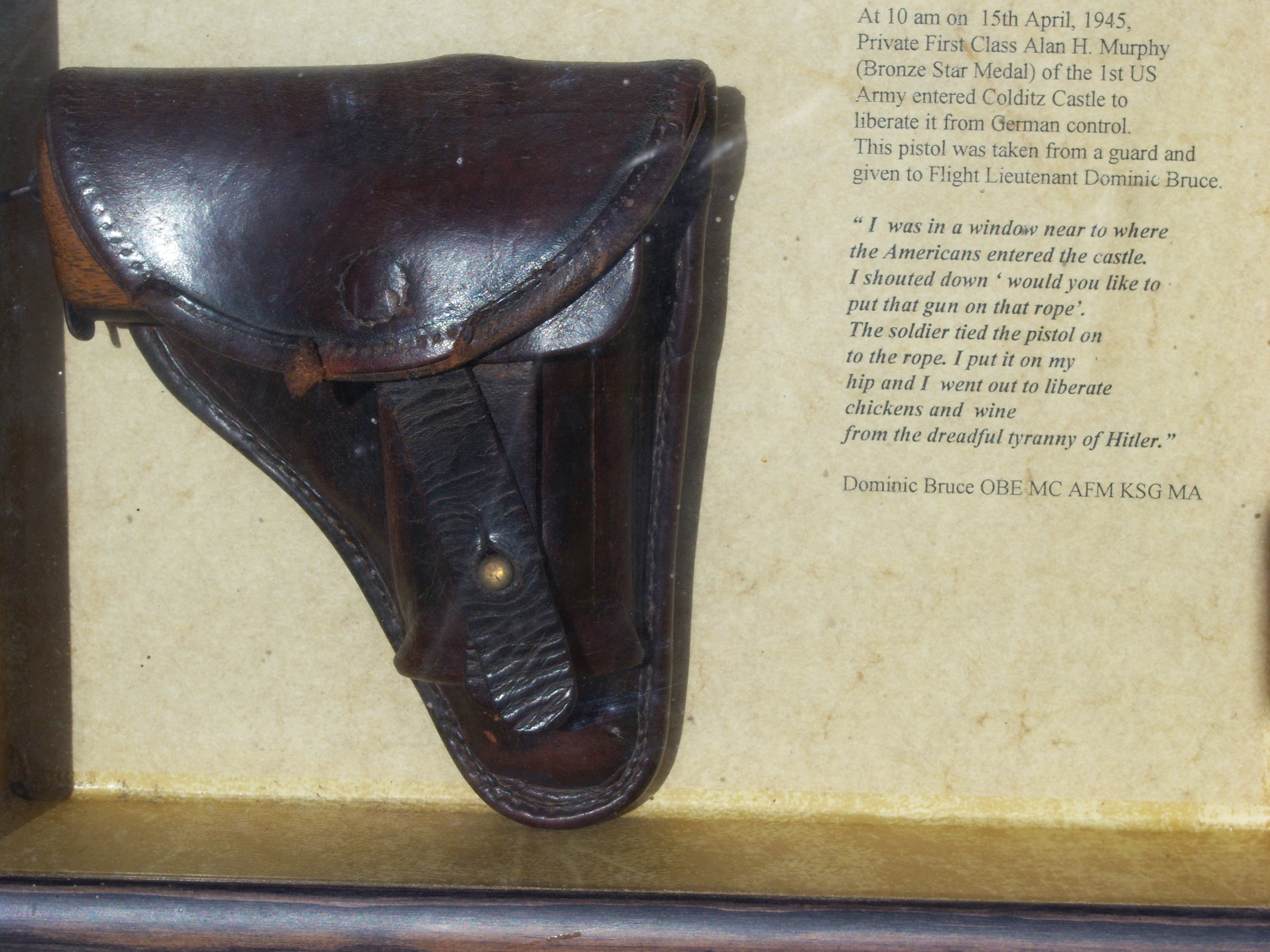 The German Army issue pistol used by Bruce in a failed attempt to liberate a chicken from the Colditz kitchens